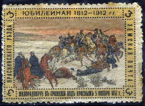 Krasninski rural stamp, 1912, 3k.